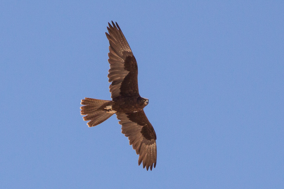 Strzelecki Track, South Australia